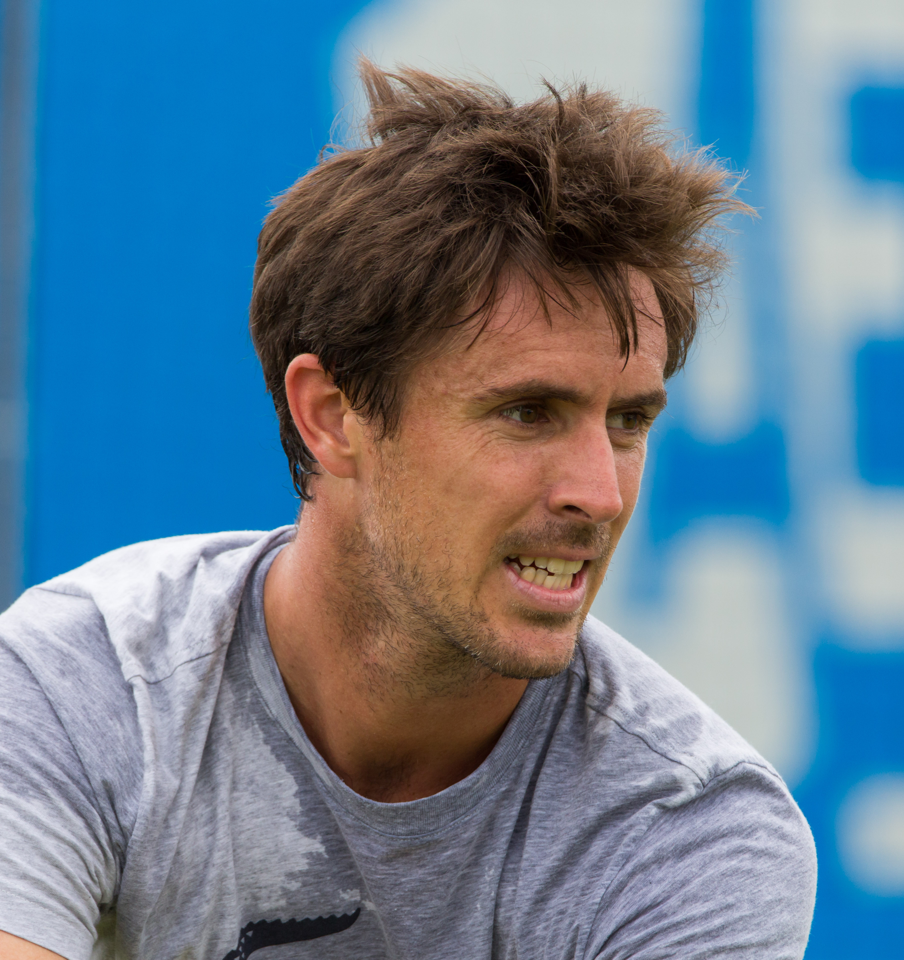 Édouard Roger-Vasselin during practice at the Queens Club Aegon Championships in London, England.